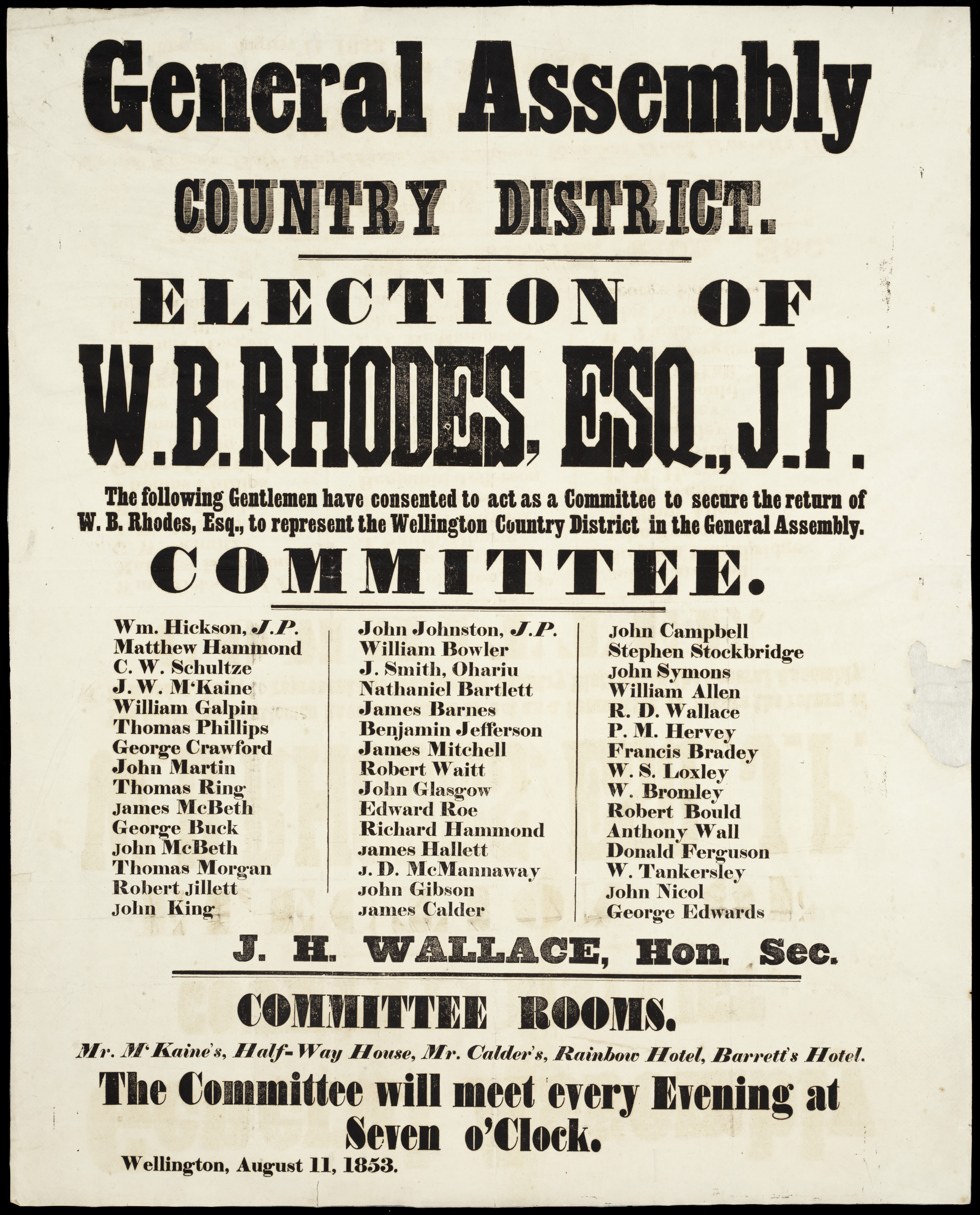 Election poster for William Barnard Rhodes; Wellington Country, 1853 general election. Arrangement of text. Lists Rhodes' backers as follows: Wm Hickson, Matthew Hammond, C W Schultze, J W M'Kaine, William Galpin, Thomas Phillips, George Crawford, John Martin, Thomas Ring, James McBeth, George Buck, John McBeth, Thomas Morgan, Robert Jillett, John King, John Johnston, William Bowler, J Smith (Ohariu), Nathaniel Bartlett, James Barnes, Benjamin Jefferson, James Mitchell, Robert Waitt, John Glasgow, Edward Roe, Richard Hammond, James Hallett, J D McMannaway, John Gibson, James Calder, John Campbell, Stephen Stockbridge, John Symons, William Allen, R D Wallace, P M Hervey, Francis Bradey, W S Loxley, W Bromley, Robert Bould, Anthony Wall, Donald Ferguson, W Tankersley, John Nicol, George Edwards. Honorary secretary J H Wallace. Committee rooms at Mr M'Kaine's, Half-Way House, Mr Calder's, Rainbow Hotel, Barrett's Hotel. Some of the letter J type is in lower case.